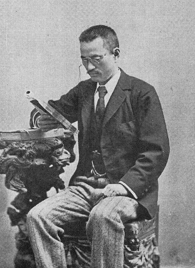 Kyuichirou_Nagai(1852 - 1913) was a Japanese officer and Chinese-style-poems writer.